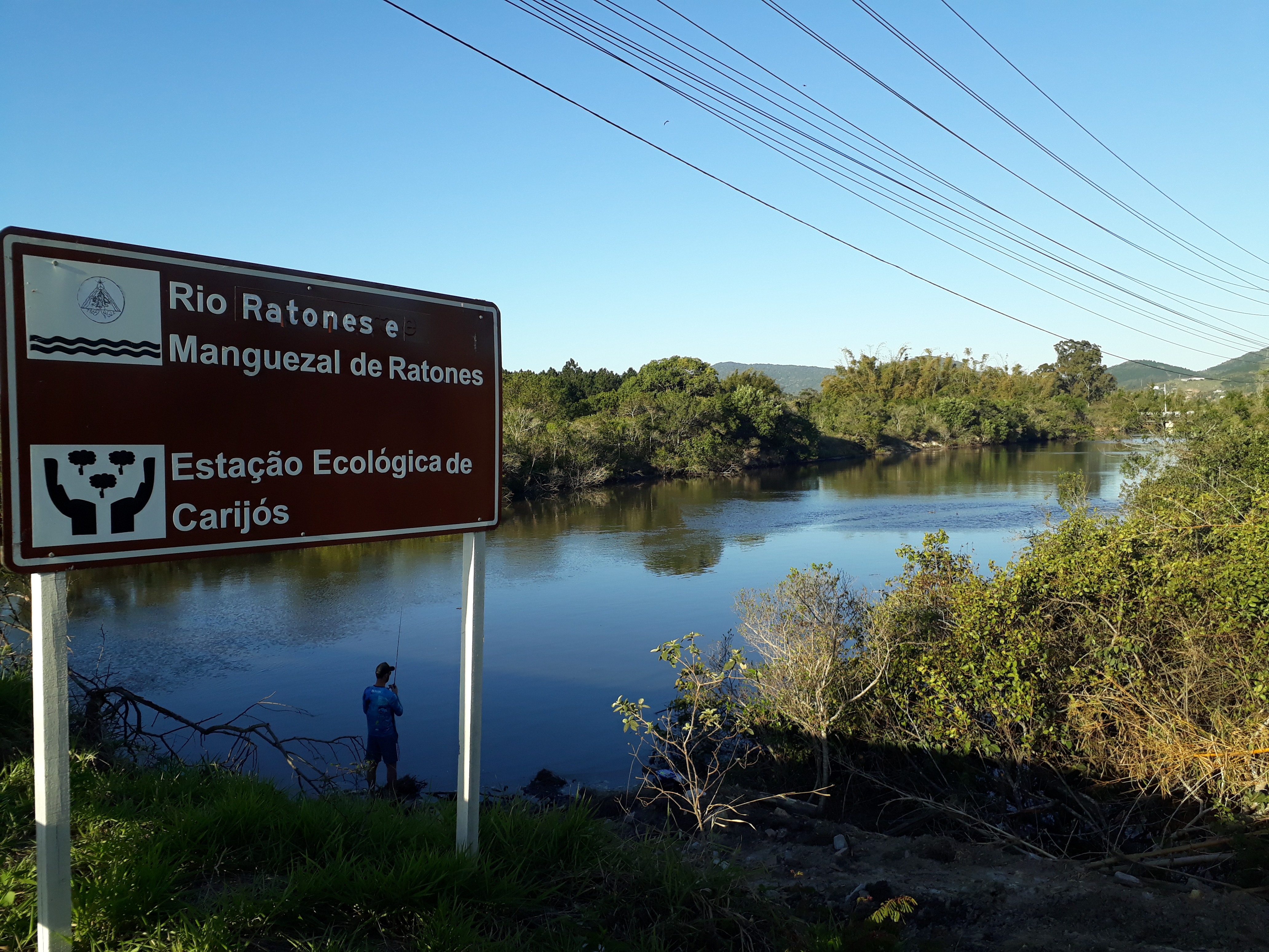 River Ratones, in the municipality of Florianópolis, southern Brazil.